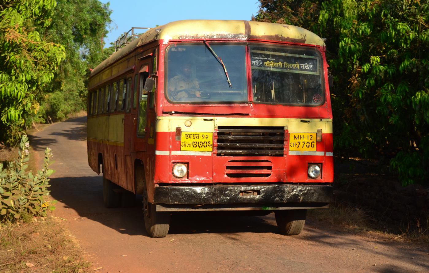 Maharashtra state transport bus commonly known as ST.